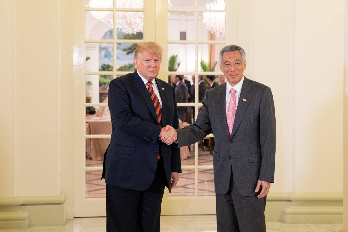 President Trump and Prime Minister Lee Hsien Loong of Singapore | June 11, 2018 (Official White House Photo by Shealah Craighead)